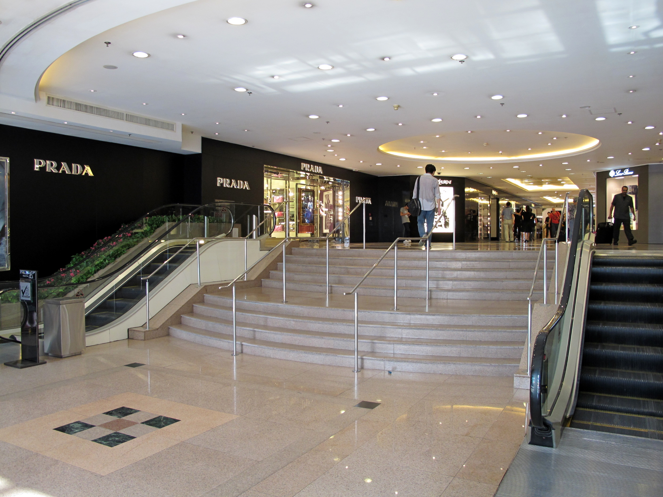 Gateway, Harbour City 港威商場